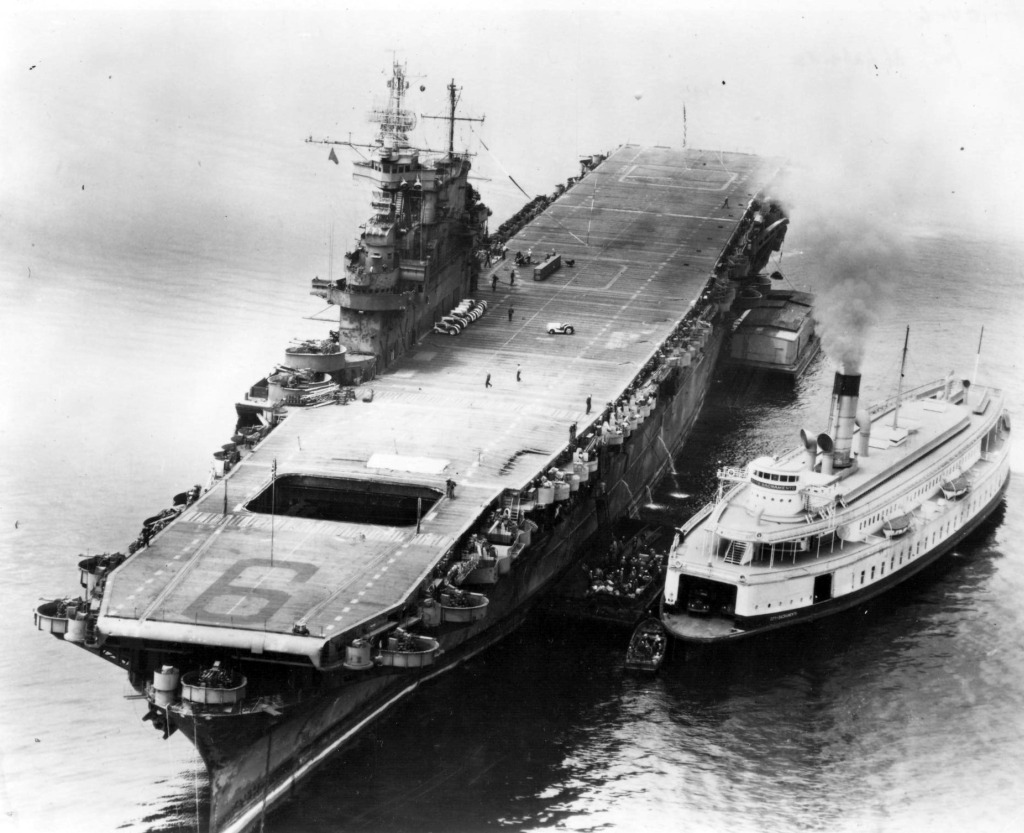 The U.S. Navy aircraft carrier USS Enterprise (CV-6) preparing for dry docking and repairs at the Puget Sound Naval Shipyard, Bremerton, Washington (USA), on 7 June 1945. The ship appears to be offloading ammunition at the stern, while crew members are boarding the ferry City of Sacramento at the bow. The forward elevator was destroyed in the Kamikaze attack on 14 May 1945. Note that the forward hull number on the flight deck was painted so it was readable by planes approaching from the bow. This feature was discontinued, because it led to confusion with USS Essex (CV-9).